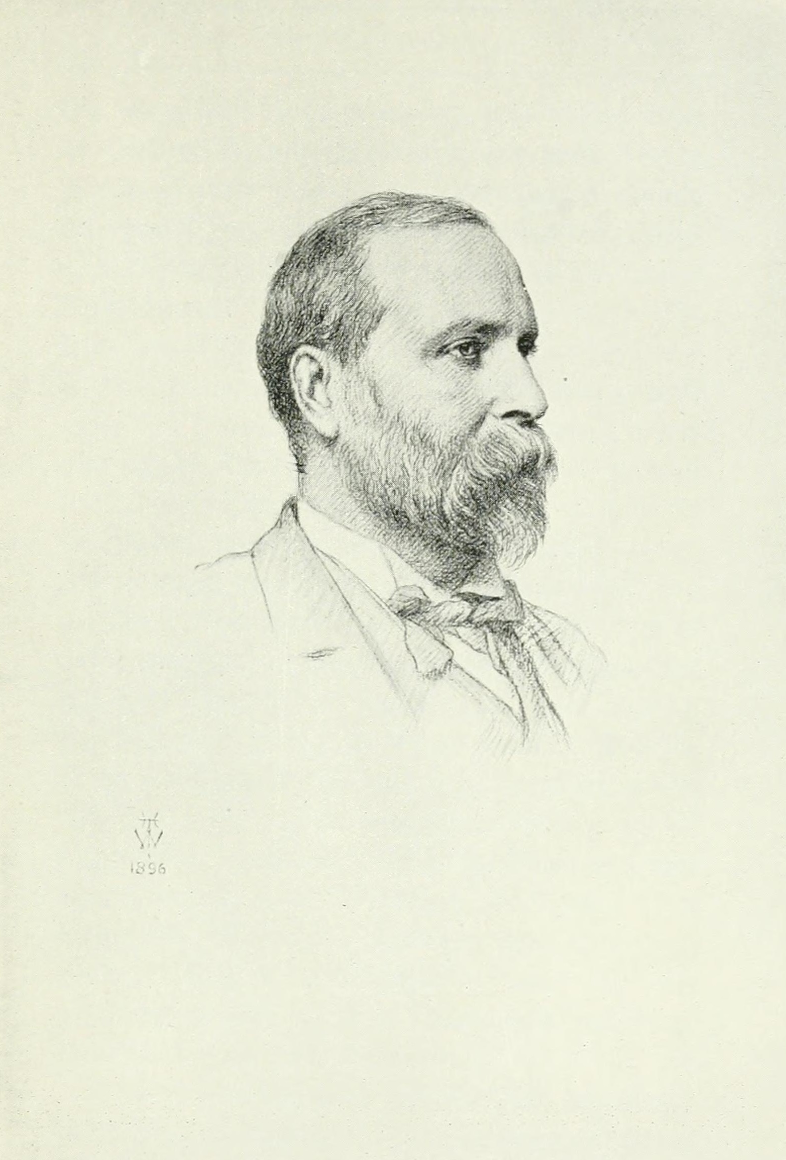 Portrait of Sir Robert Henry Meade